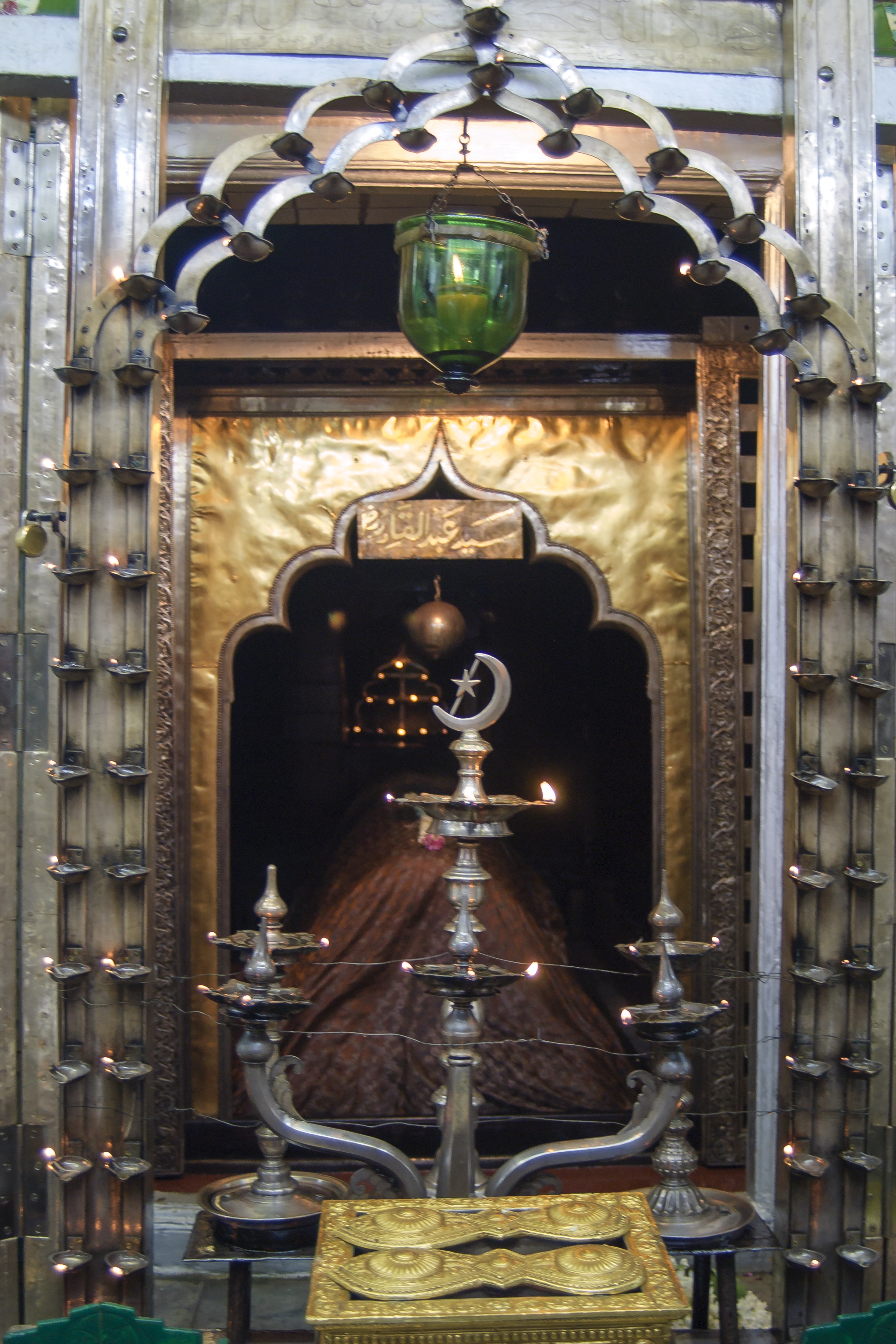 Sufi saint Shahul Hameed's tomb at Nagore Dargah in Nagapattinam, Tamil Nadu